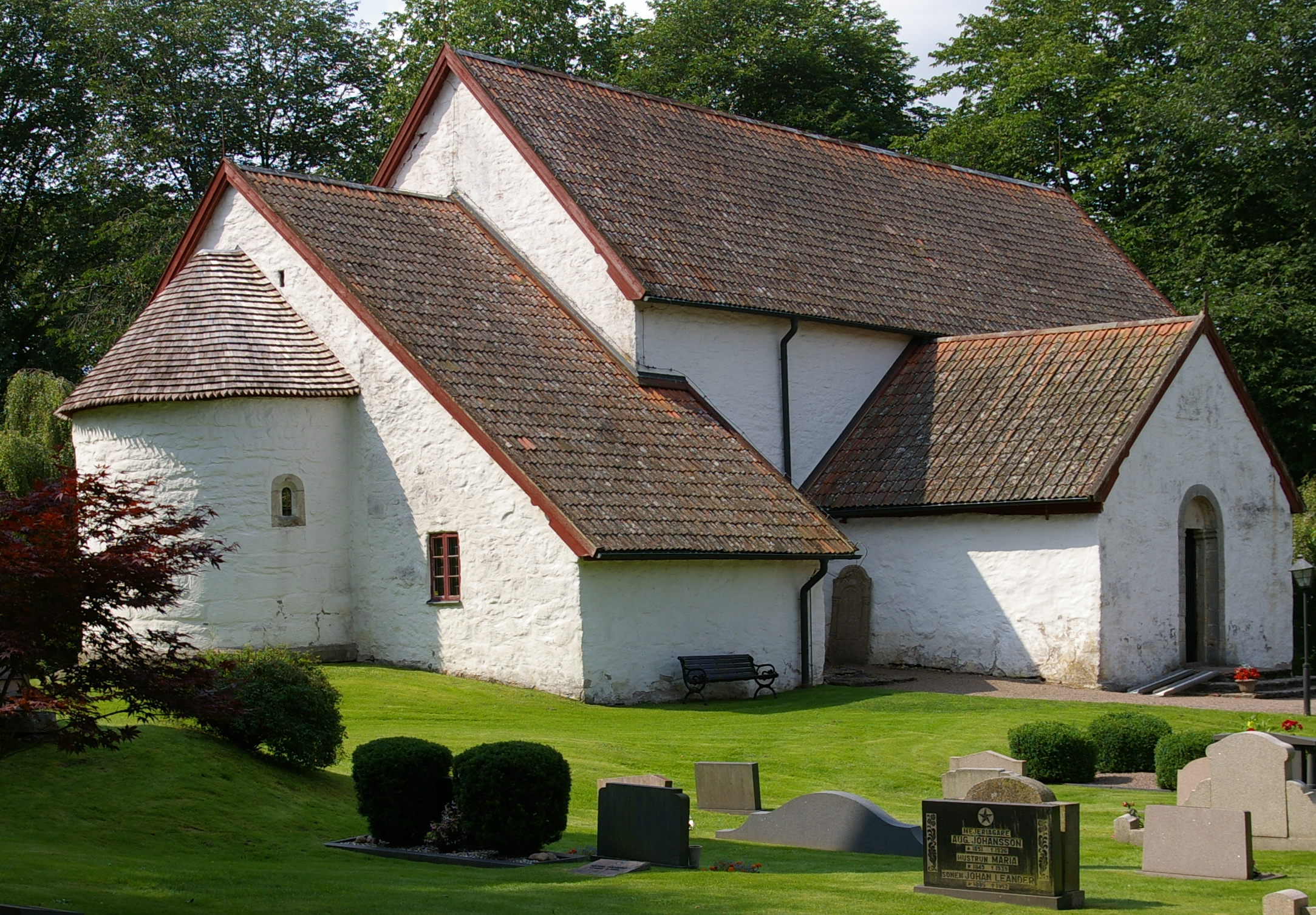 Gökhems kyrka (Swedish:Church of Segerstad) in Västergötland, Sweden.